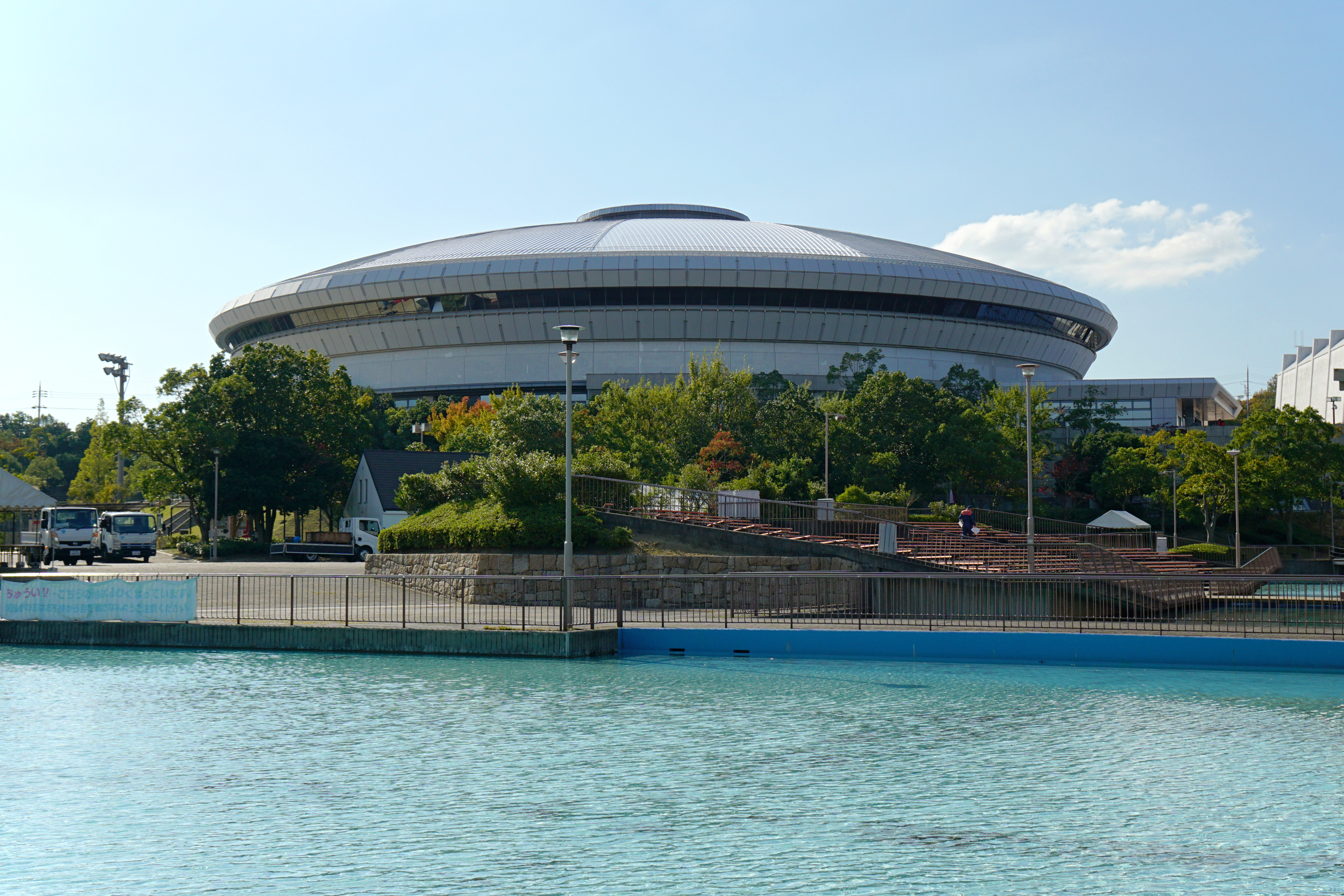 Kobe Green Arena in Kobe, Hyogo prefecture, Japan